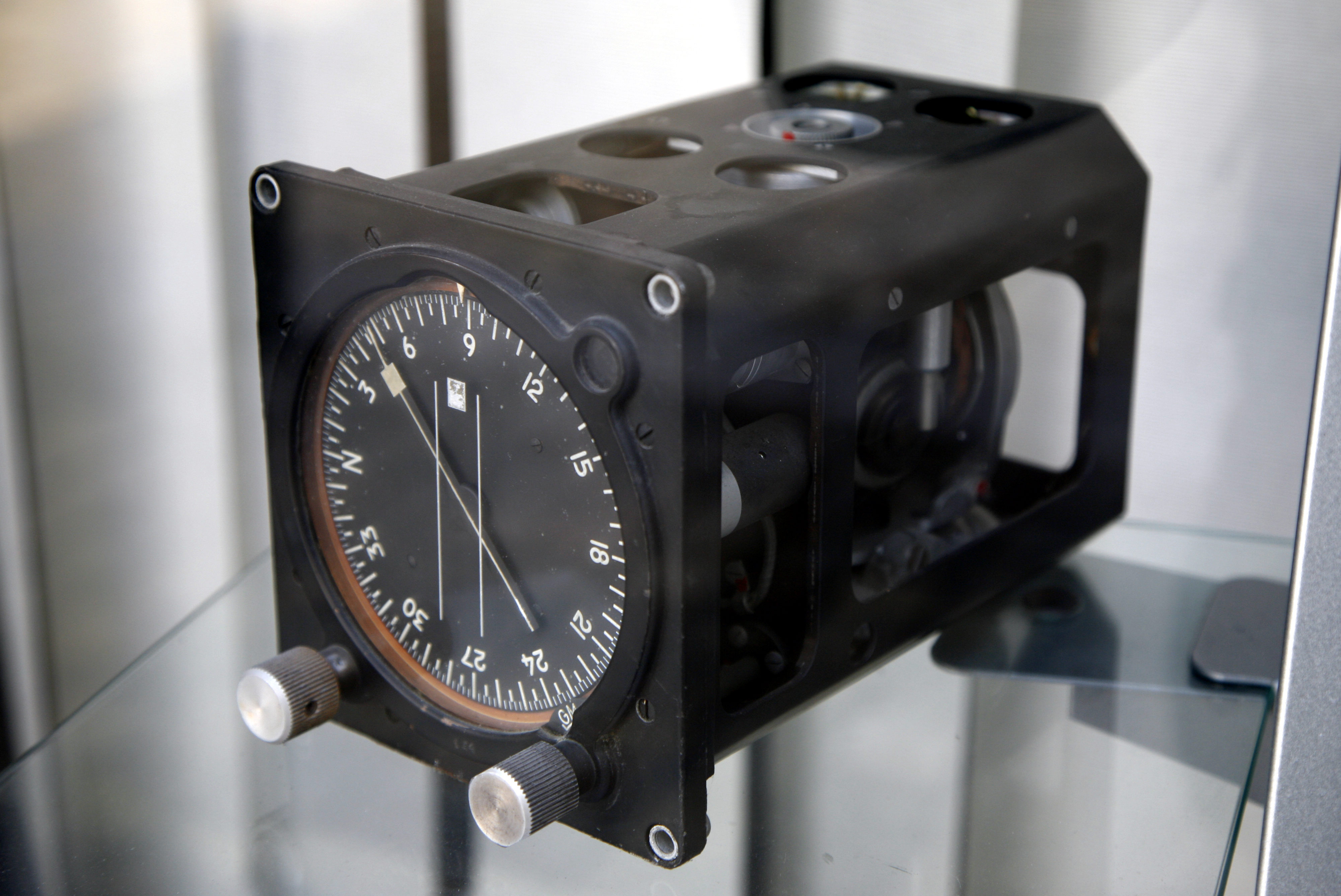 Heading indicator